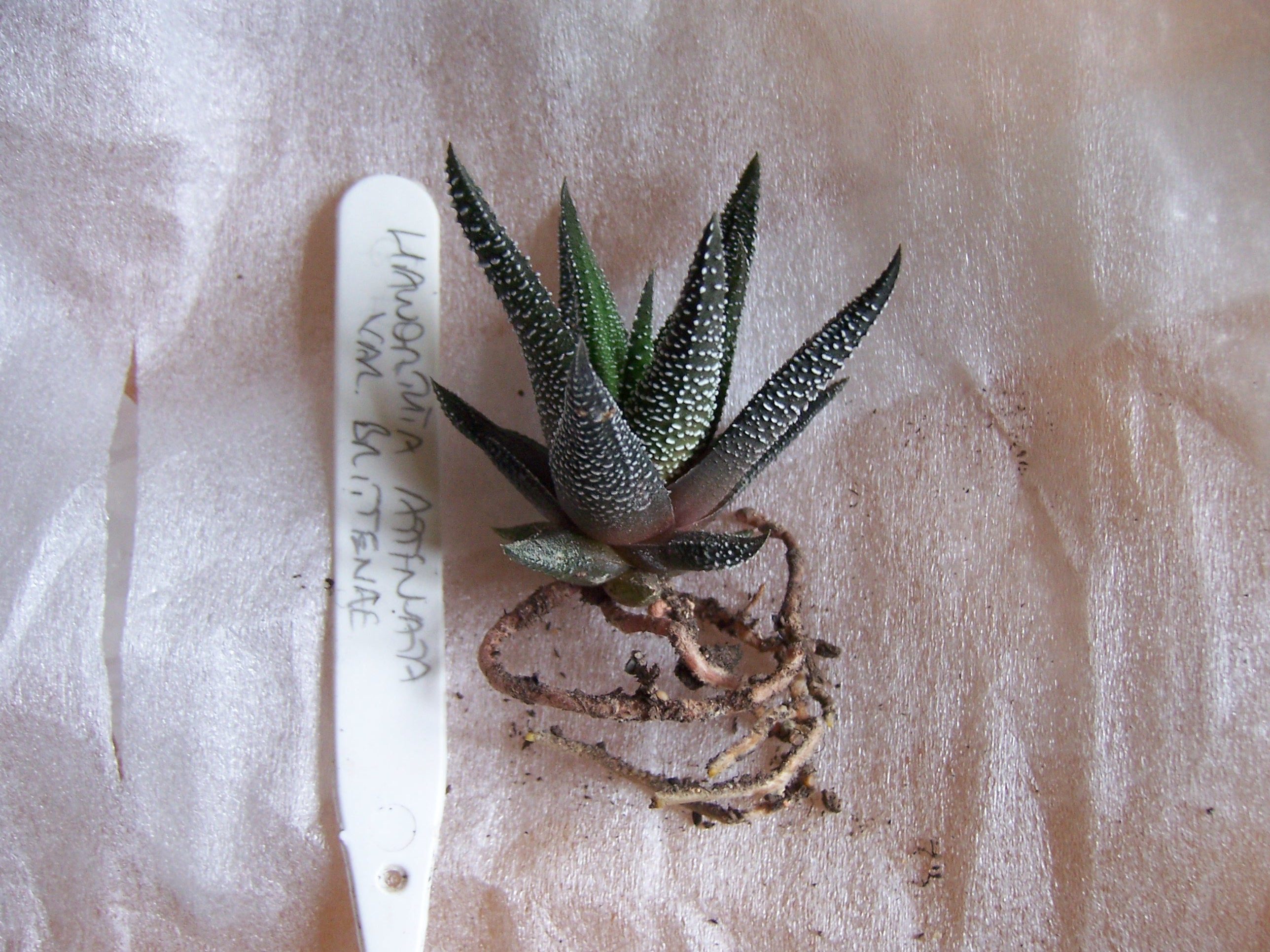 Haworthia Attenuata var Brittenae